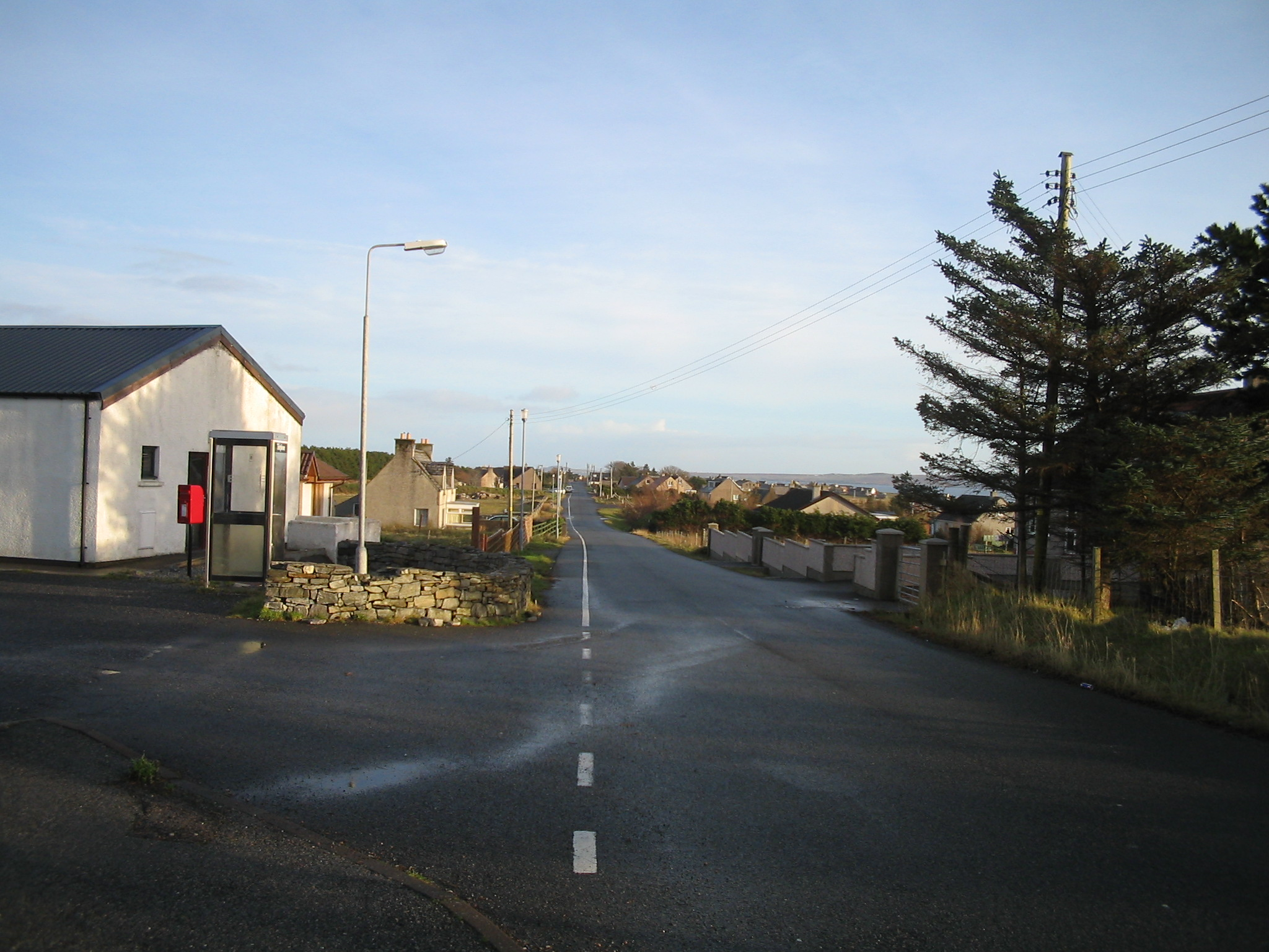 Road into Tong